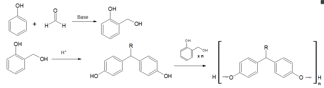 Proceso de Baekeland